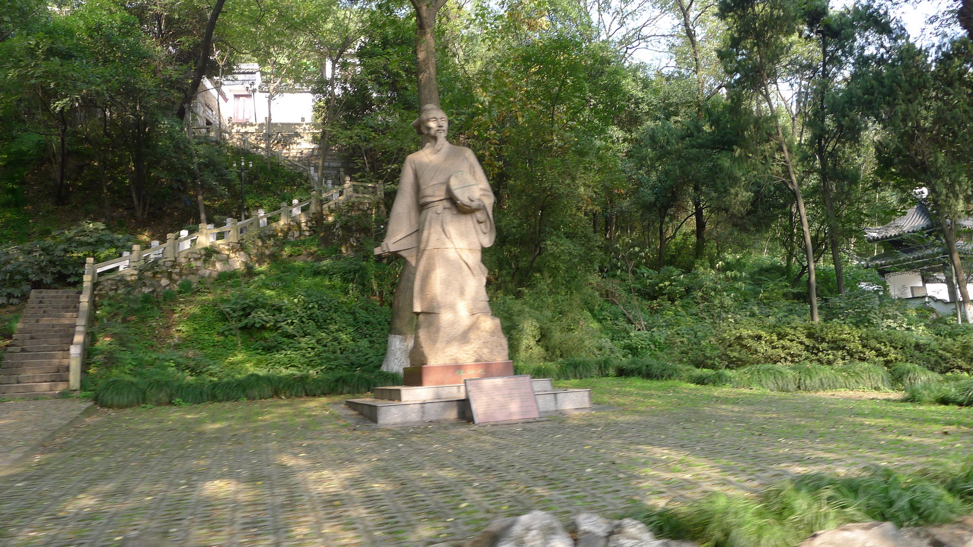 Statue of Zu Chongzi in Tinglin Park in Kunshan